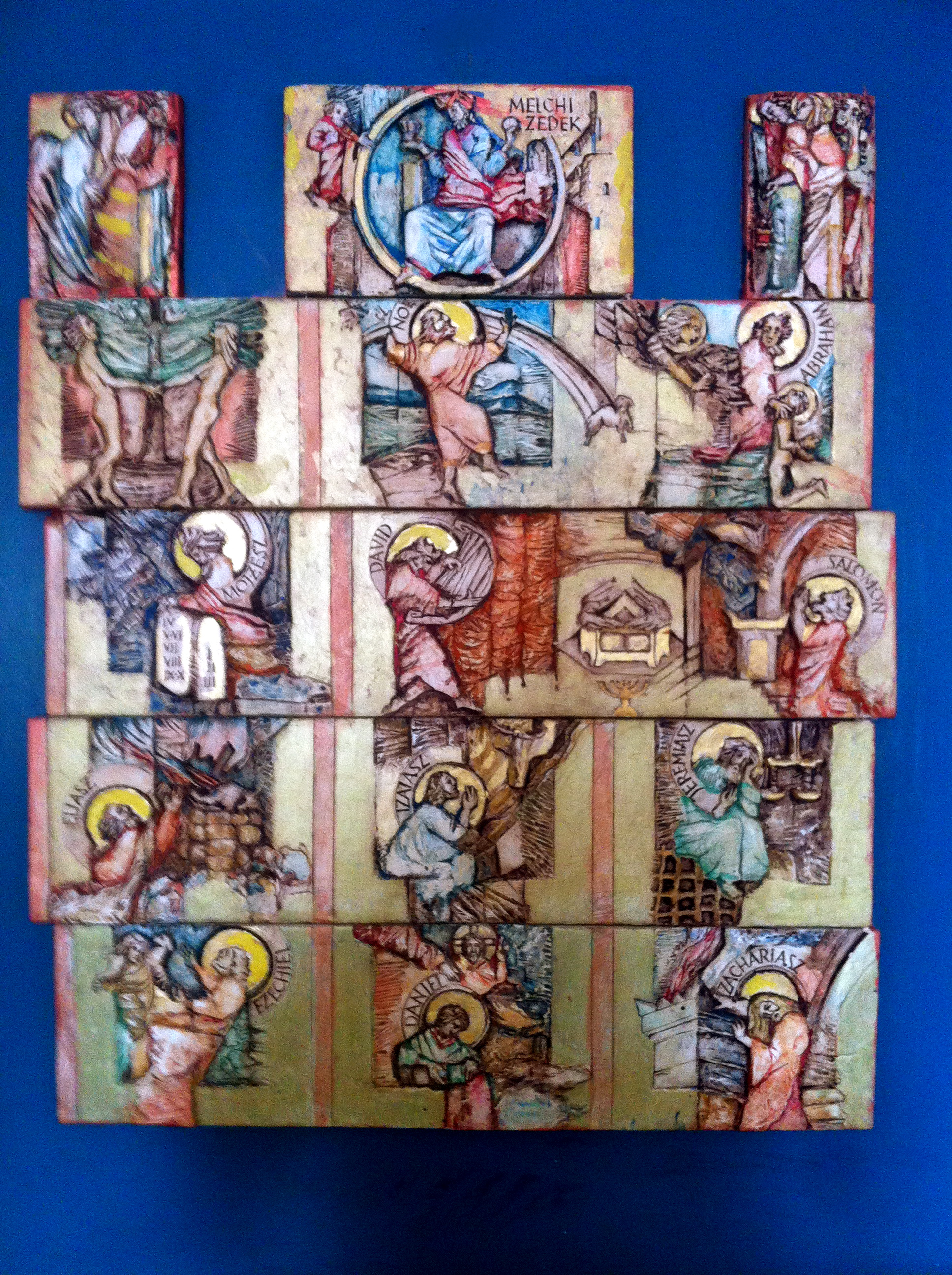 Wojciech Gryniewicz 2009